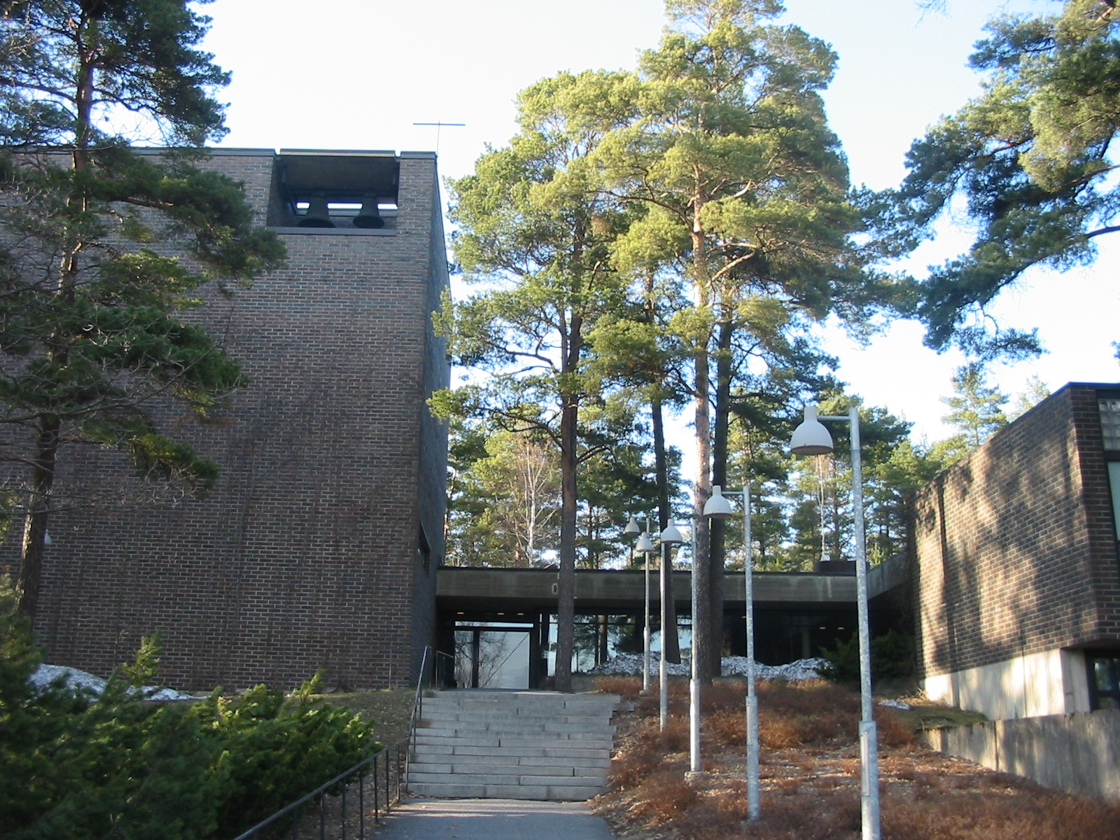 Pallivaha Church in Turku, Finland, was designed by architect Pekka Pitkänen, and completed in 1968.